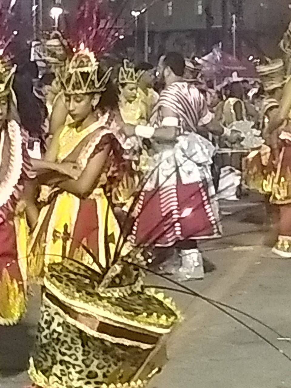 Os Trapalhões (bloco carnavalesco)